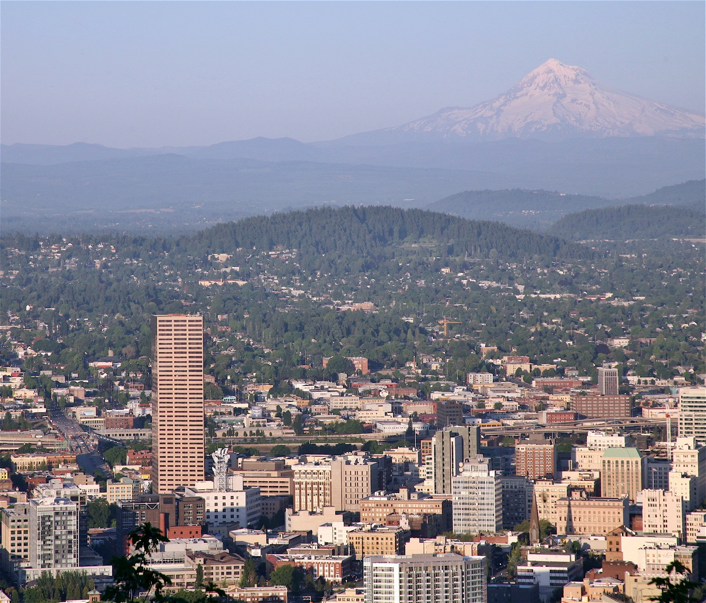 Mount Tabor is in the center with Mount Hood in the distance at upper right. The tall building at bottom left is US Bancorp Tower.